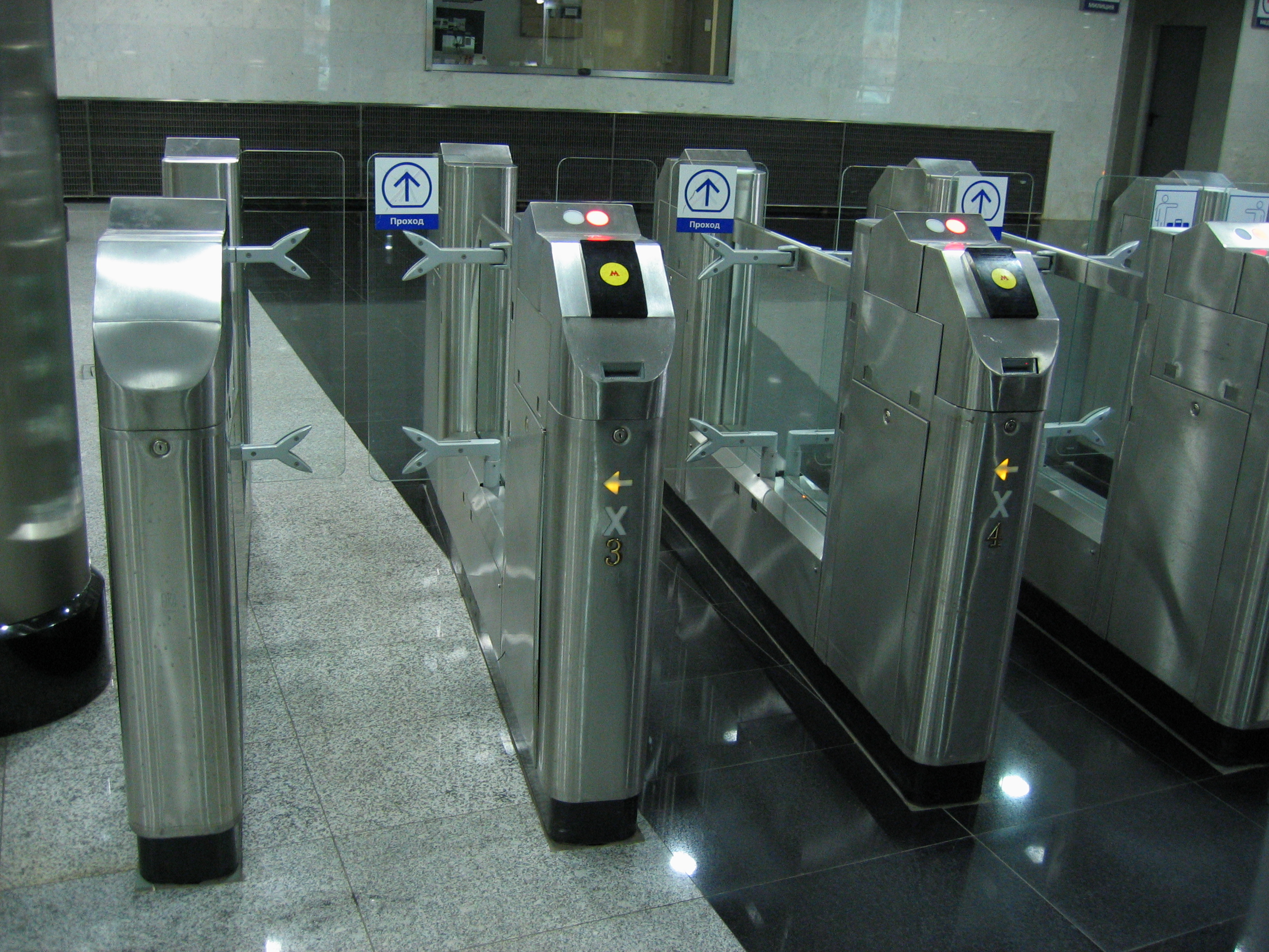 Moscow Metro, turnstiles at a station entrance